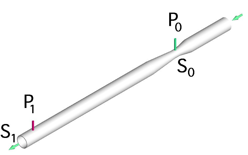 Schematic of venturi flowmeter